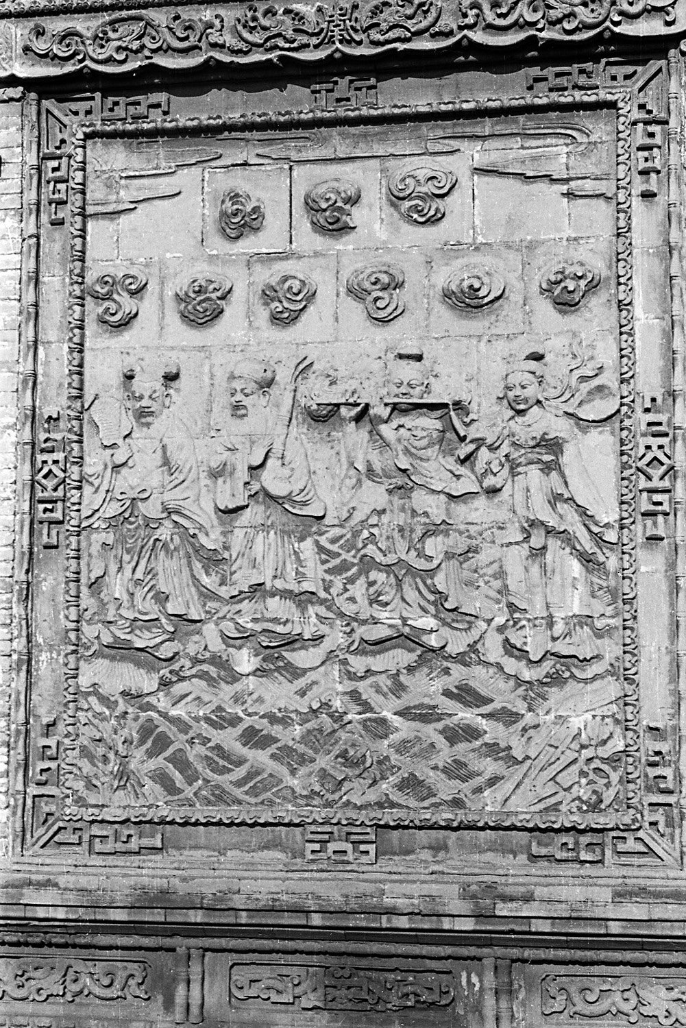 A part of the wall in front of the entrance at Choijin Lama Monastery (museum). Ulan Bator, Mongolia (1972)